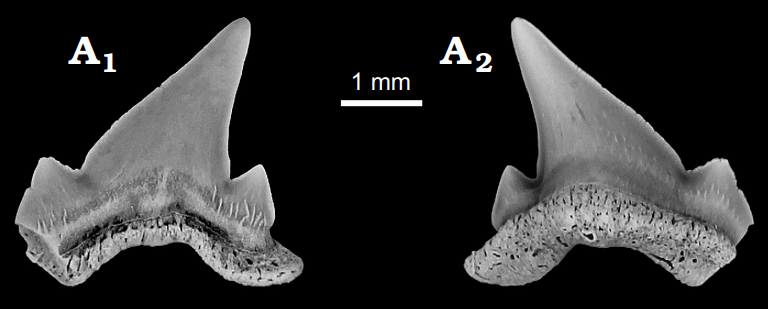 Fig. 3. Isolated, small juvenile teeth of Cardabiodon ricki Siverson, 1999 (WAM 13.6.1: lp7–9?)